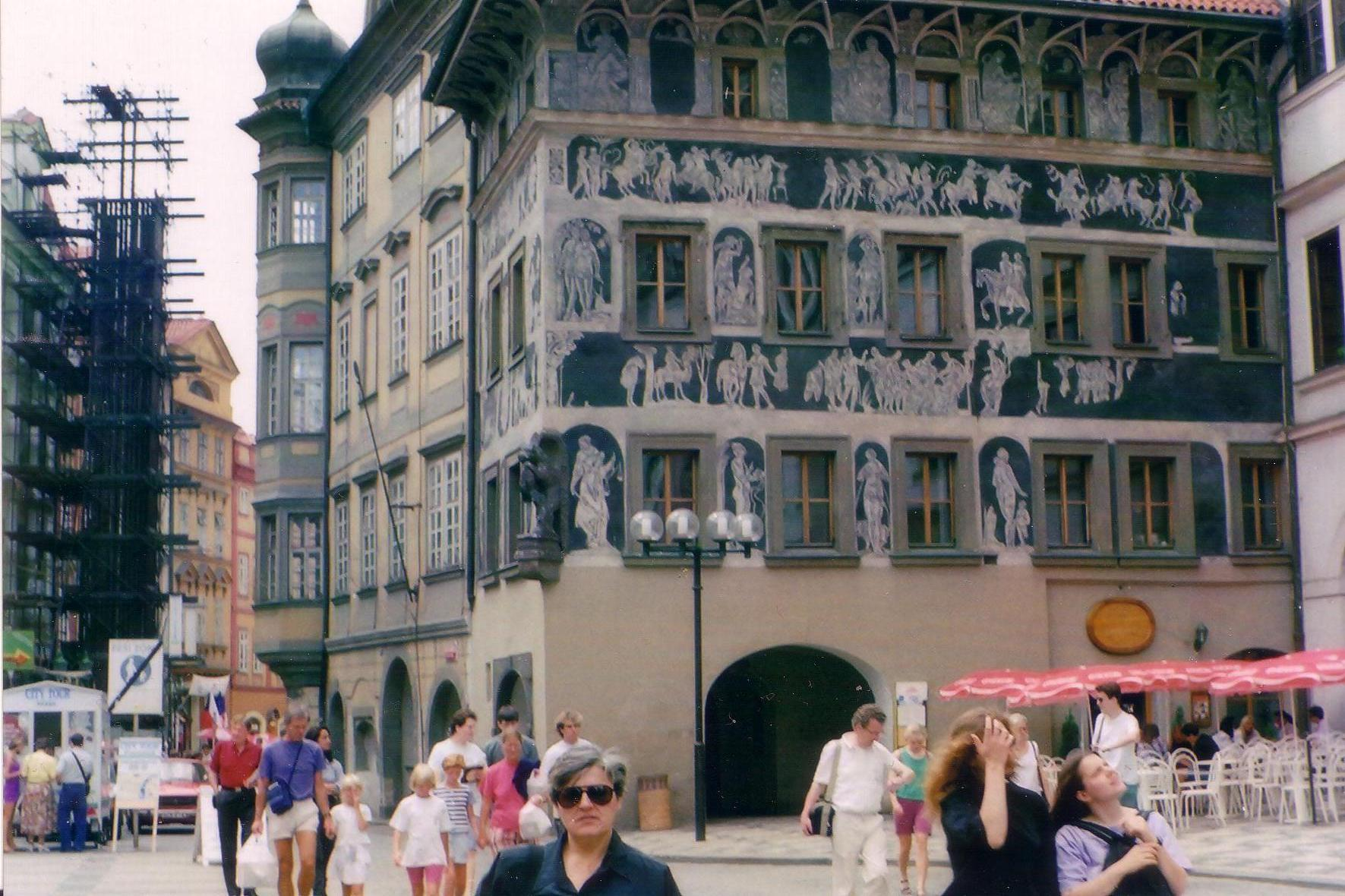 Kafka's House - Museum in Prague